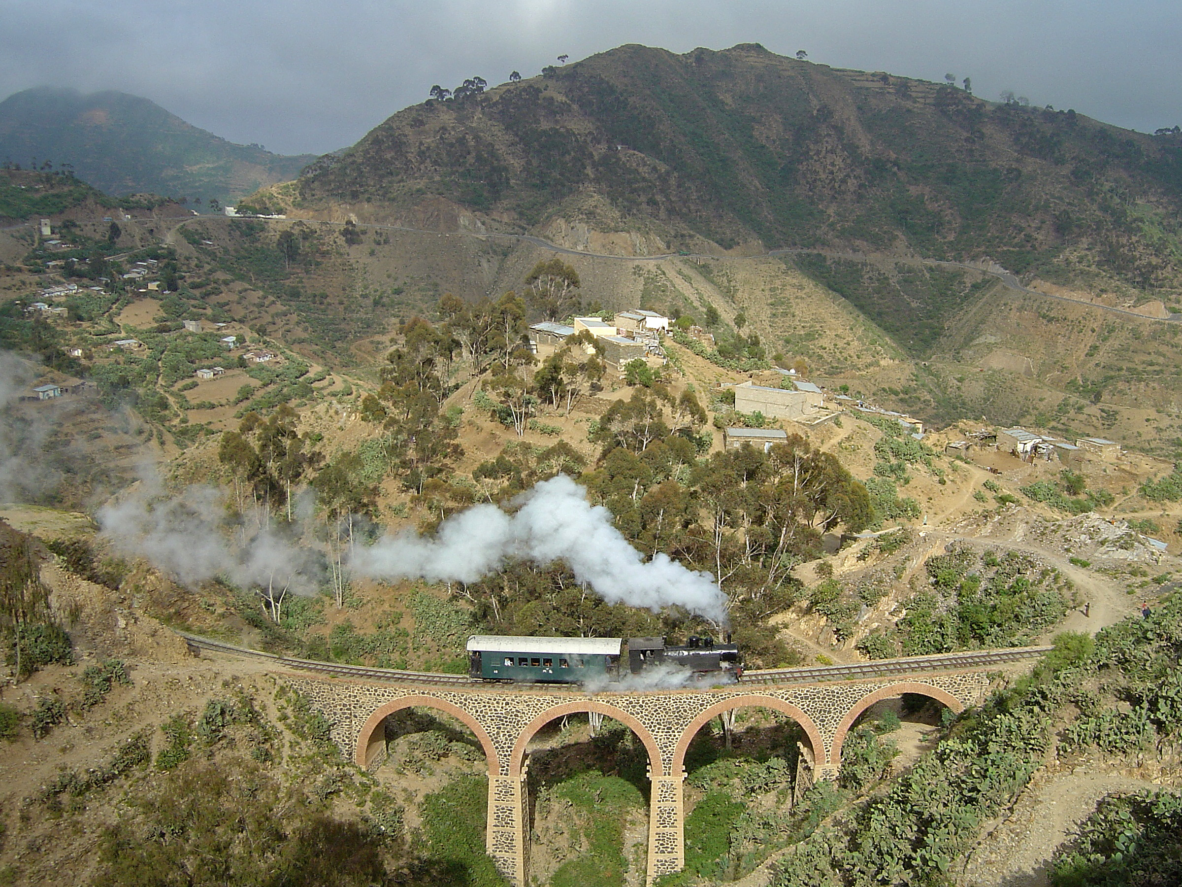 Eritrean Railway, showing mountainous terrain traversed between Arbaroba and Asmara.